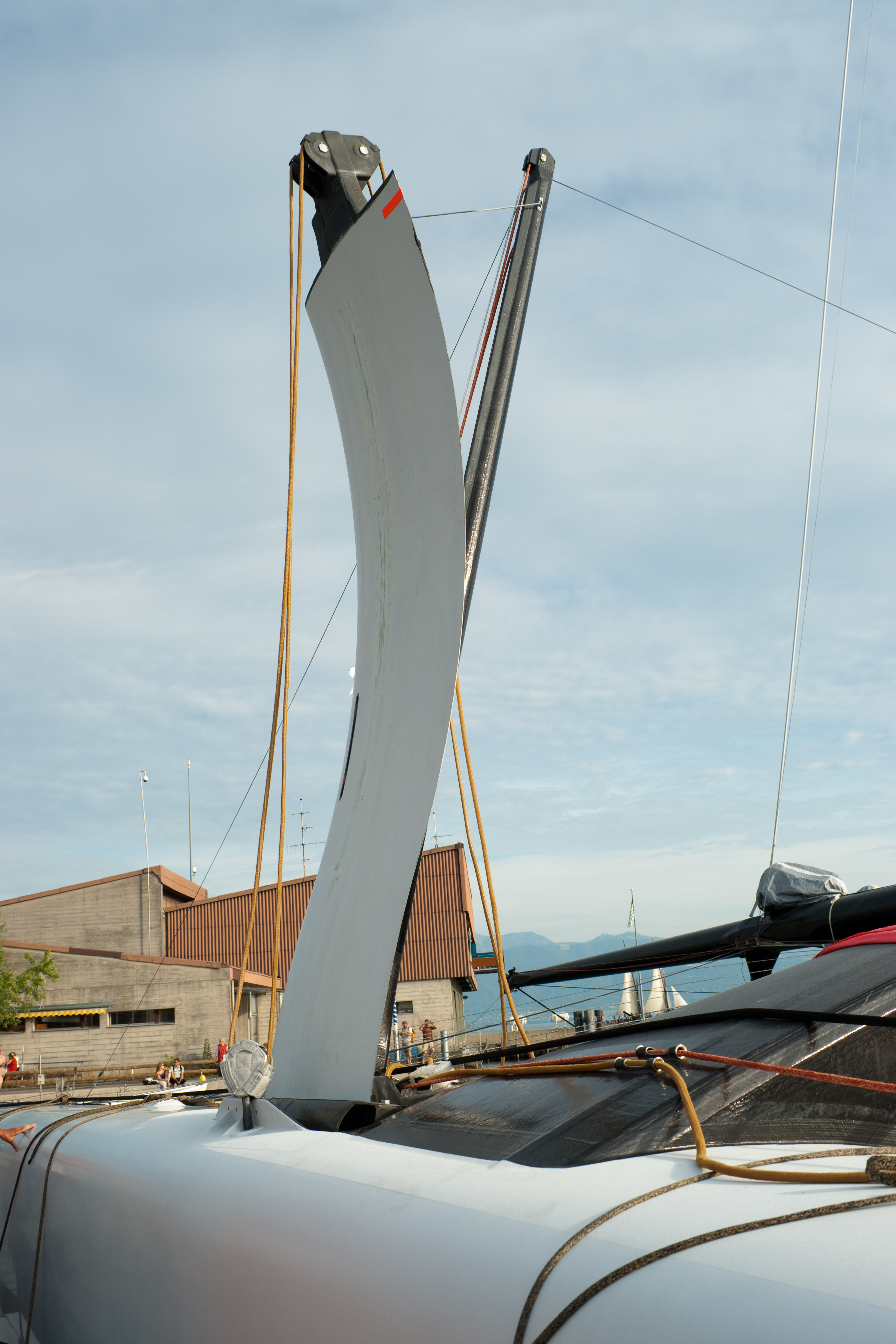 Backbord foil of Alinghi V